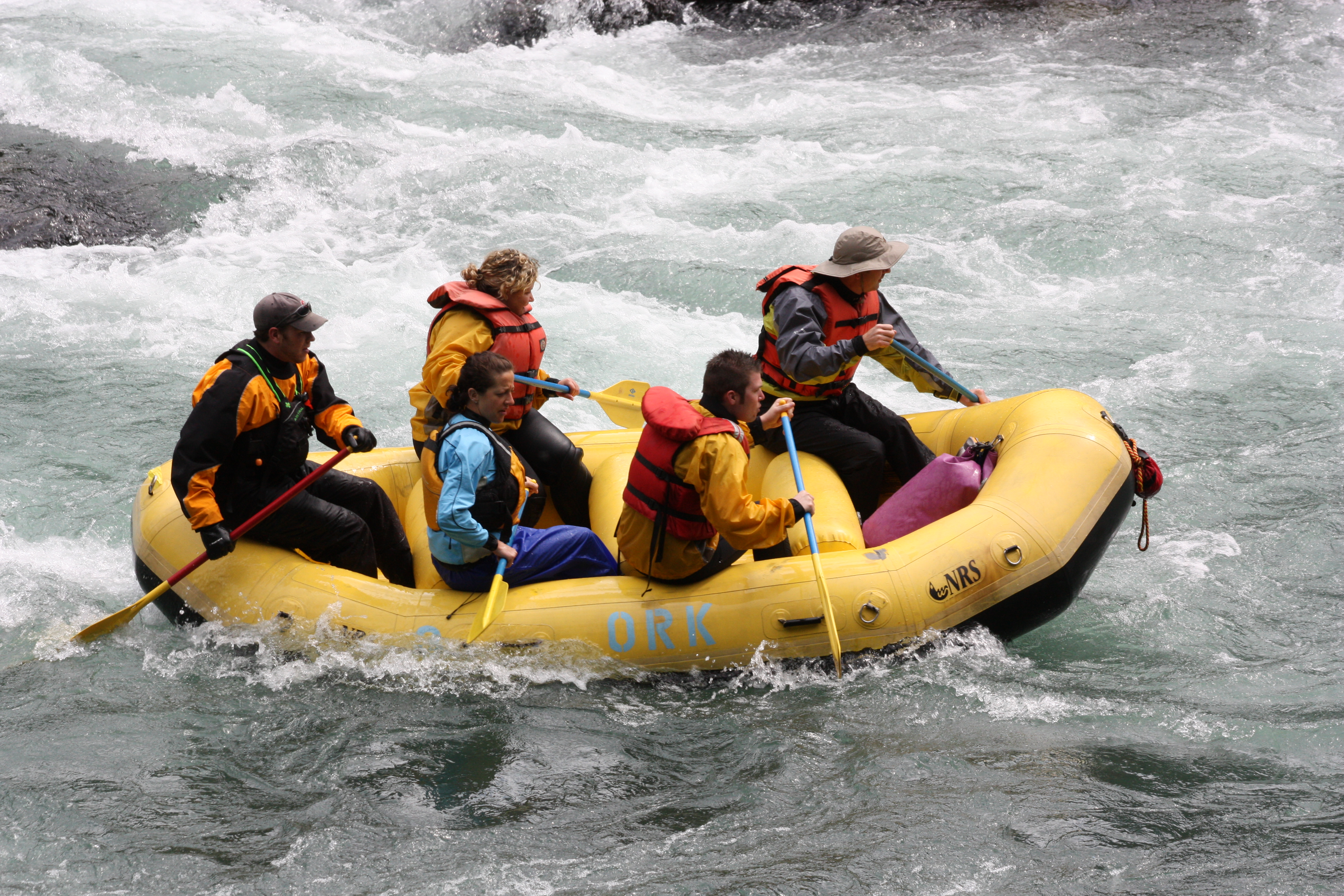 Rafting Class II+ whitewater river; Olympic Raft and Kayak (ORK 3); NRS raft; Elwha River